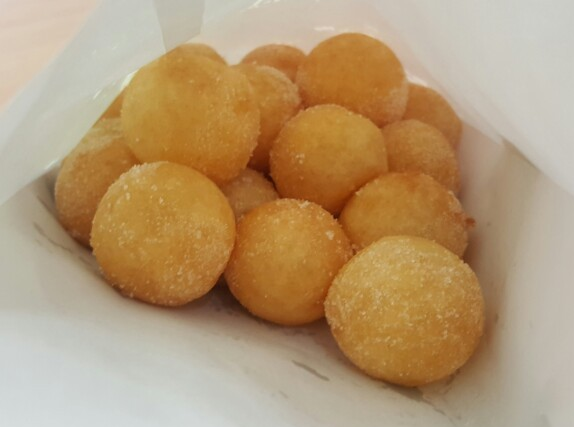 Chapssal-doughnuts (glutinous rice doughnuts)